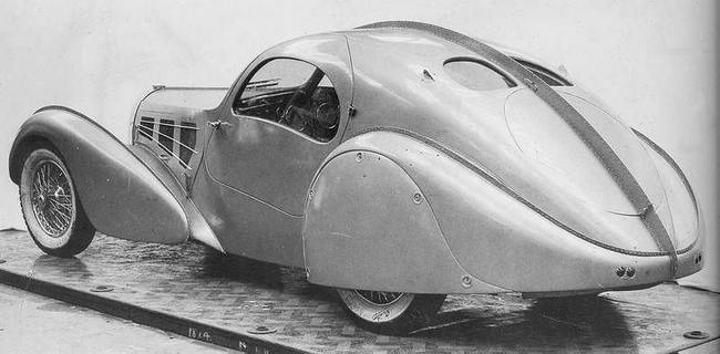 Bugatti Aérolithe, 1936.